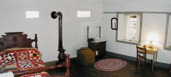 telegraph room of Windsor Castle, Pipe Spring National Monument, Arizona